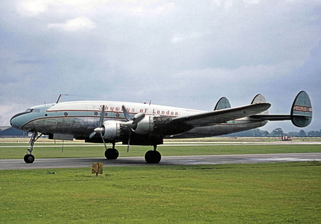 Lockheed L749A Constellation of Skyways of London operating an inclusive tour flight at Manchester (Ringway) Airport in August 1963.